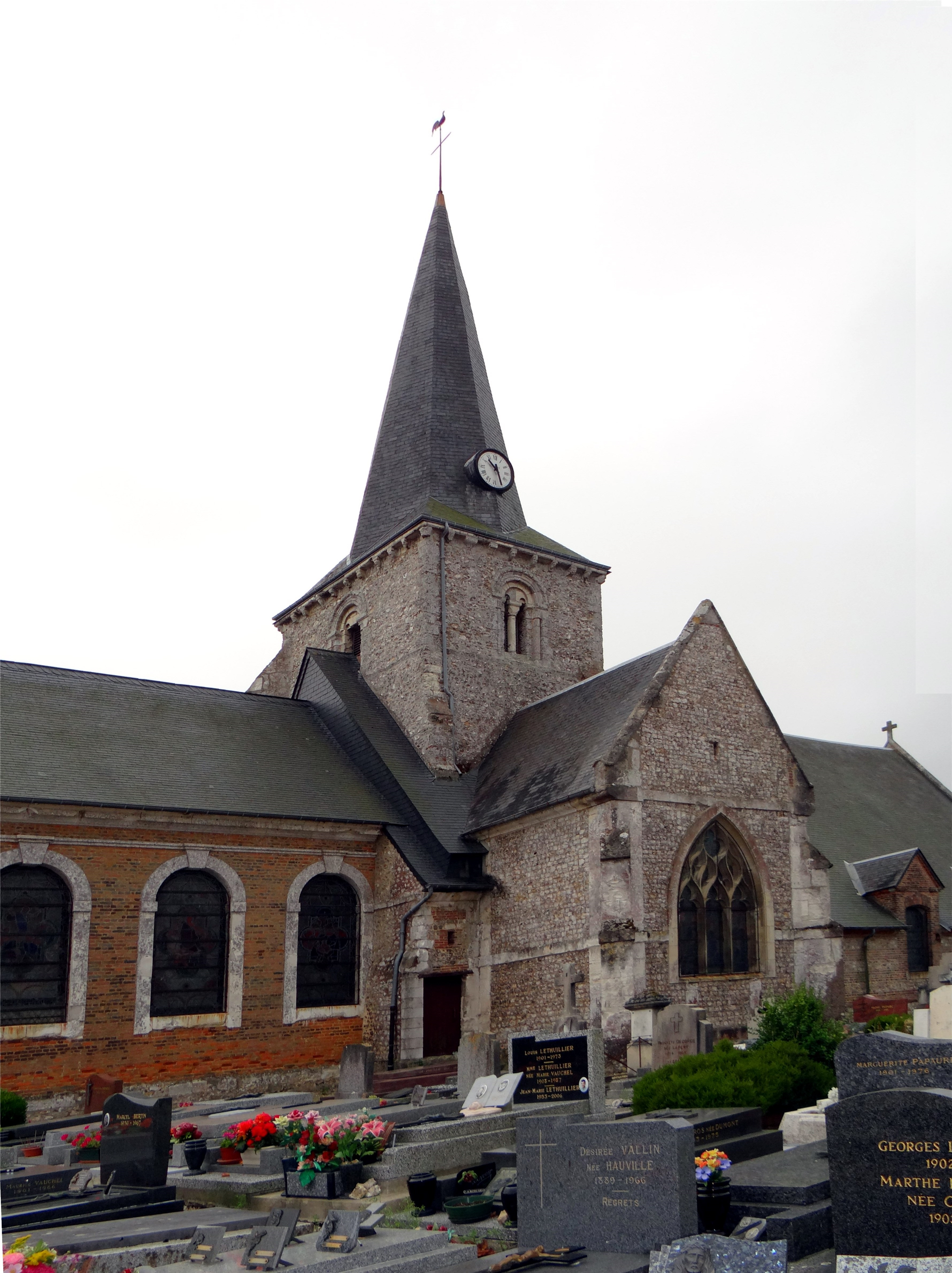 Church of St. Denis, Écrainville, Seine-Maritime, France.